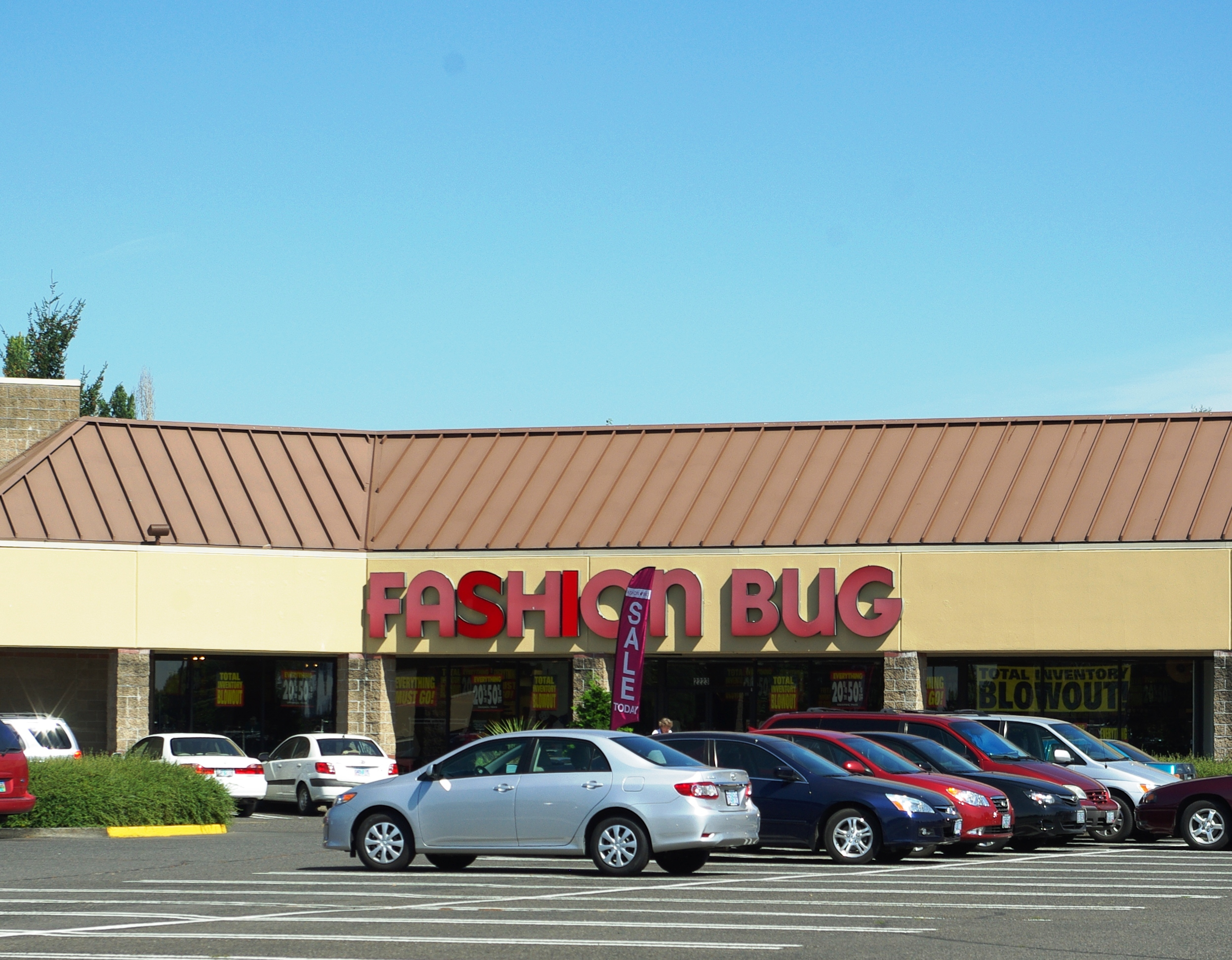 Fashion Bug at the Sunset Esplanade in Hillsboro, Oregon.